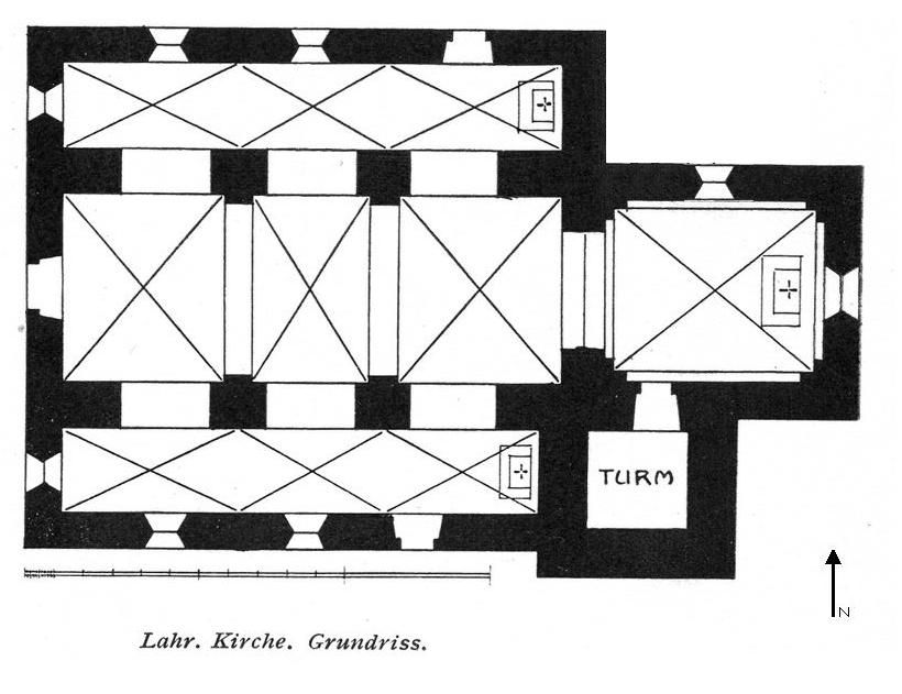 Floor plan of the Church "John the Baptist" in Lahr, Hesse, Germany